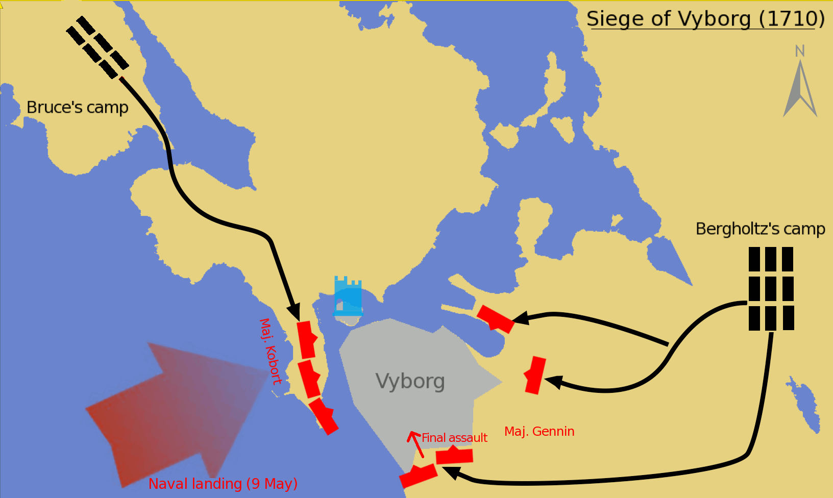 A map illustrating the 1710 Siege of Vyborg.